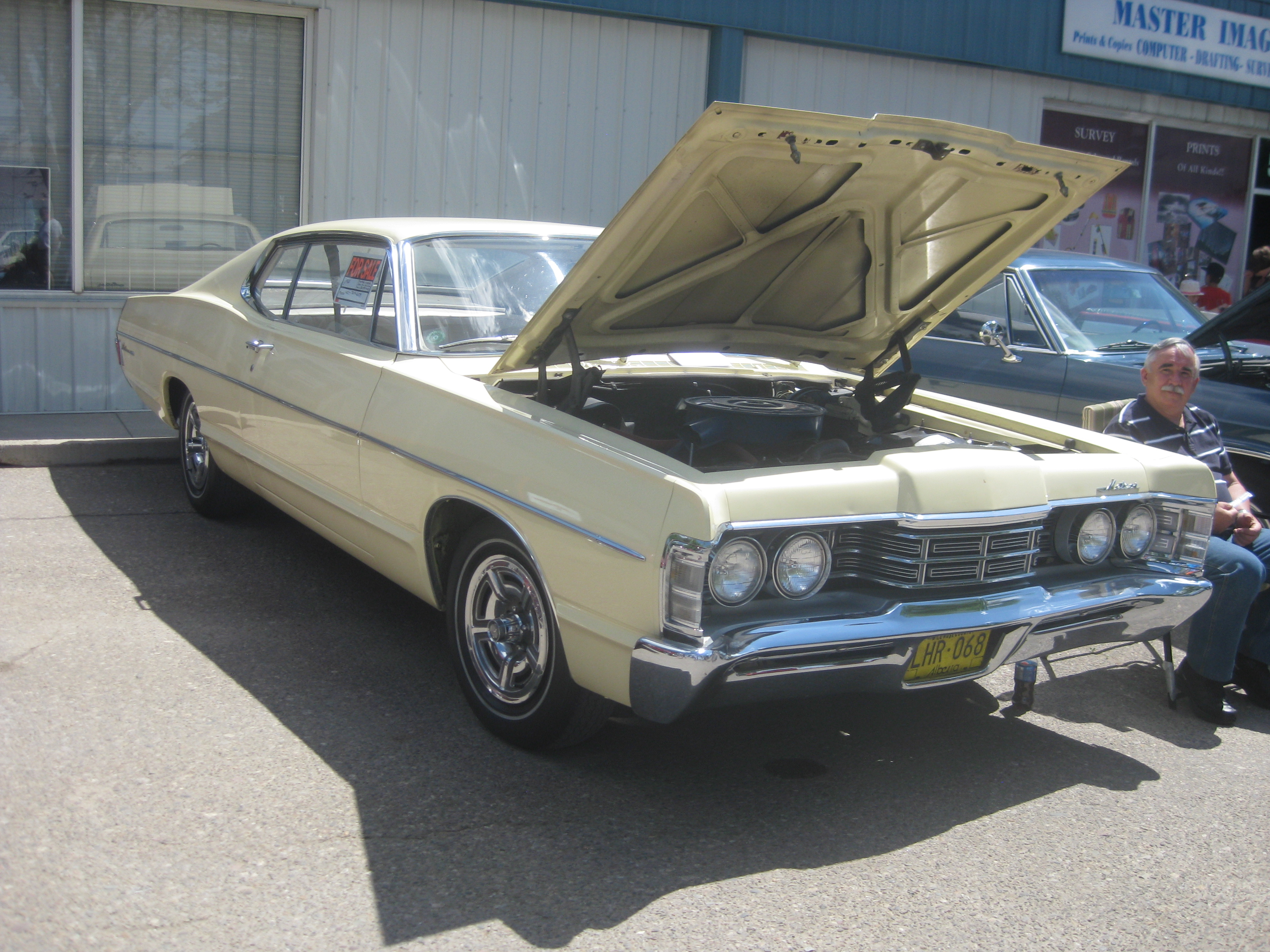 Canadian market 1968 Meteor Rideau two door. This one was powered by a 302cid V8.